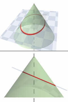 Ellipsoid conical surface - the ellipsoid surface is the intersection of a solid cone and a tilted plane